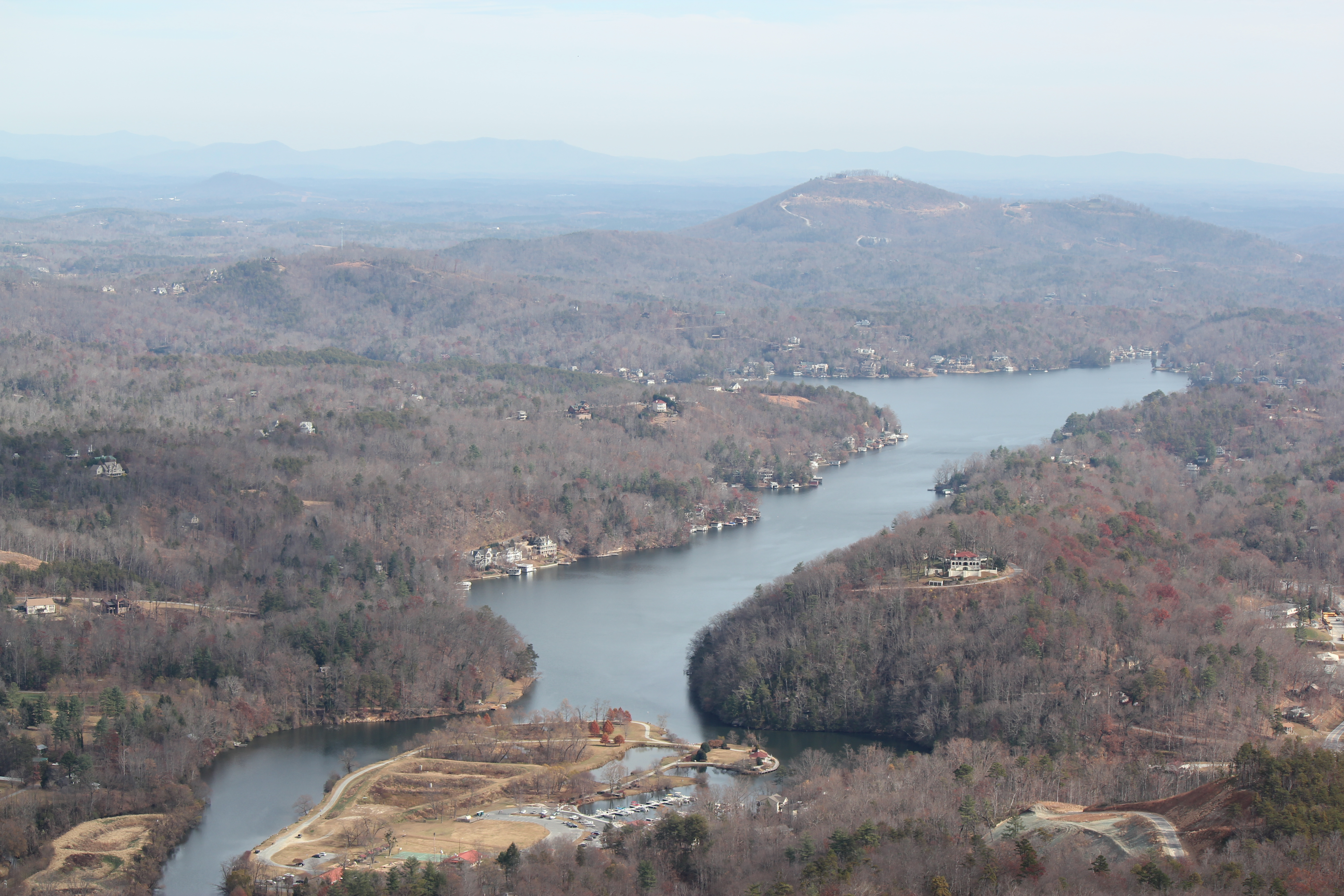 View of Lake Lure from Chimney Rock